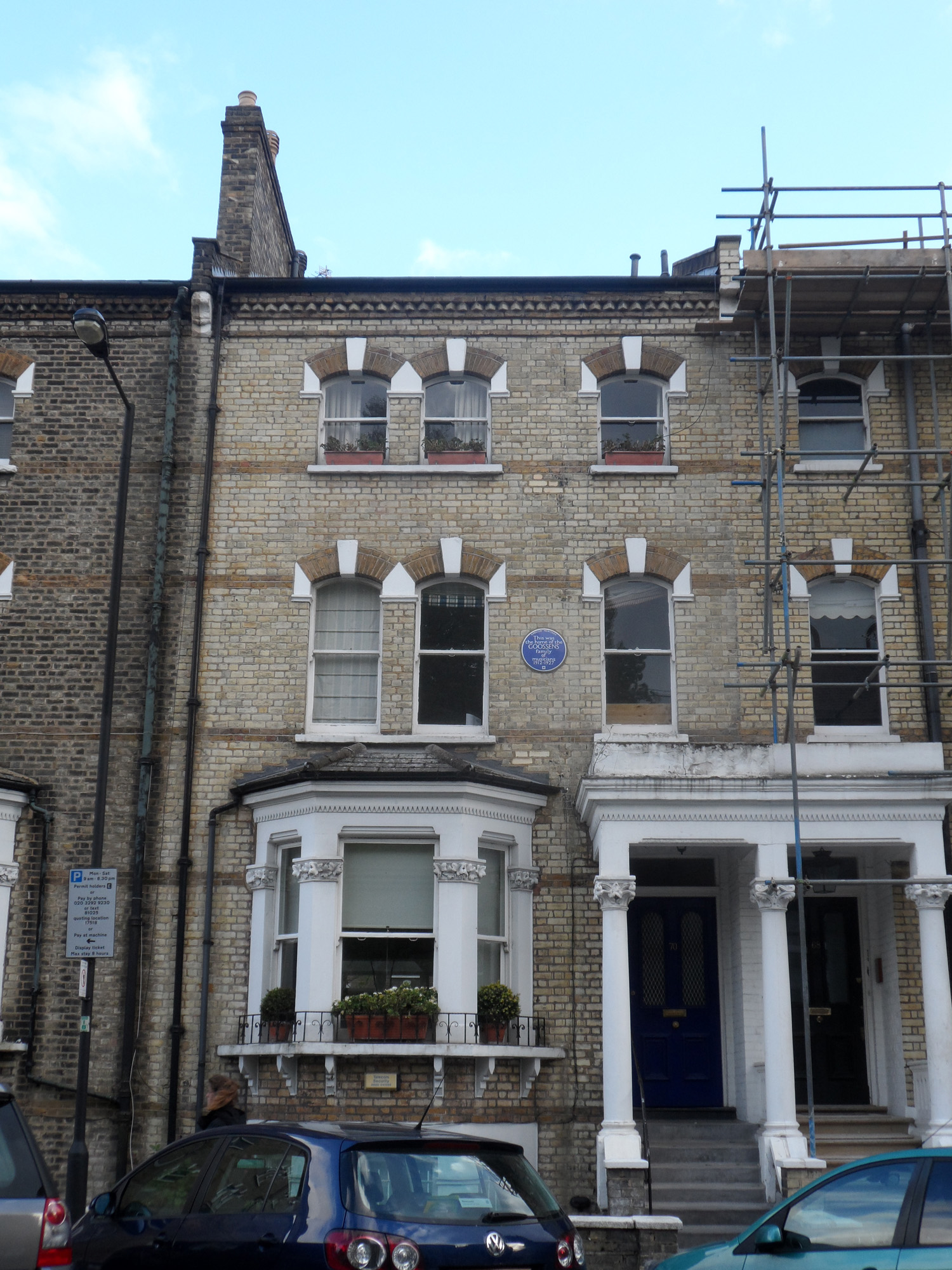 This was the home of the GOOSSENS family of musicians 1912-1927